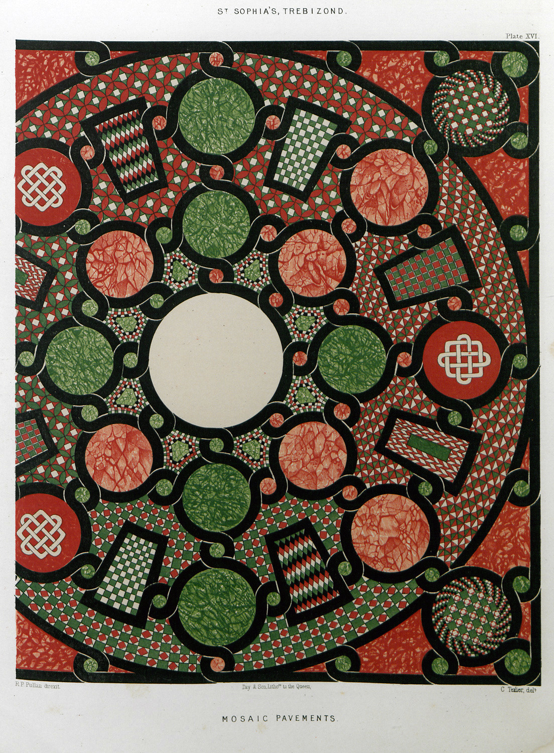 Floor Tiles of the Hagia Sophia in Trebizond (Trabzon, Turkey) .as drawn by Charles Texier in 1864